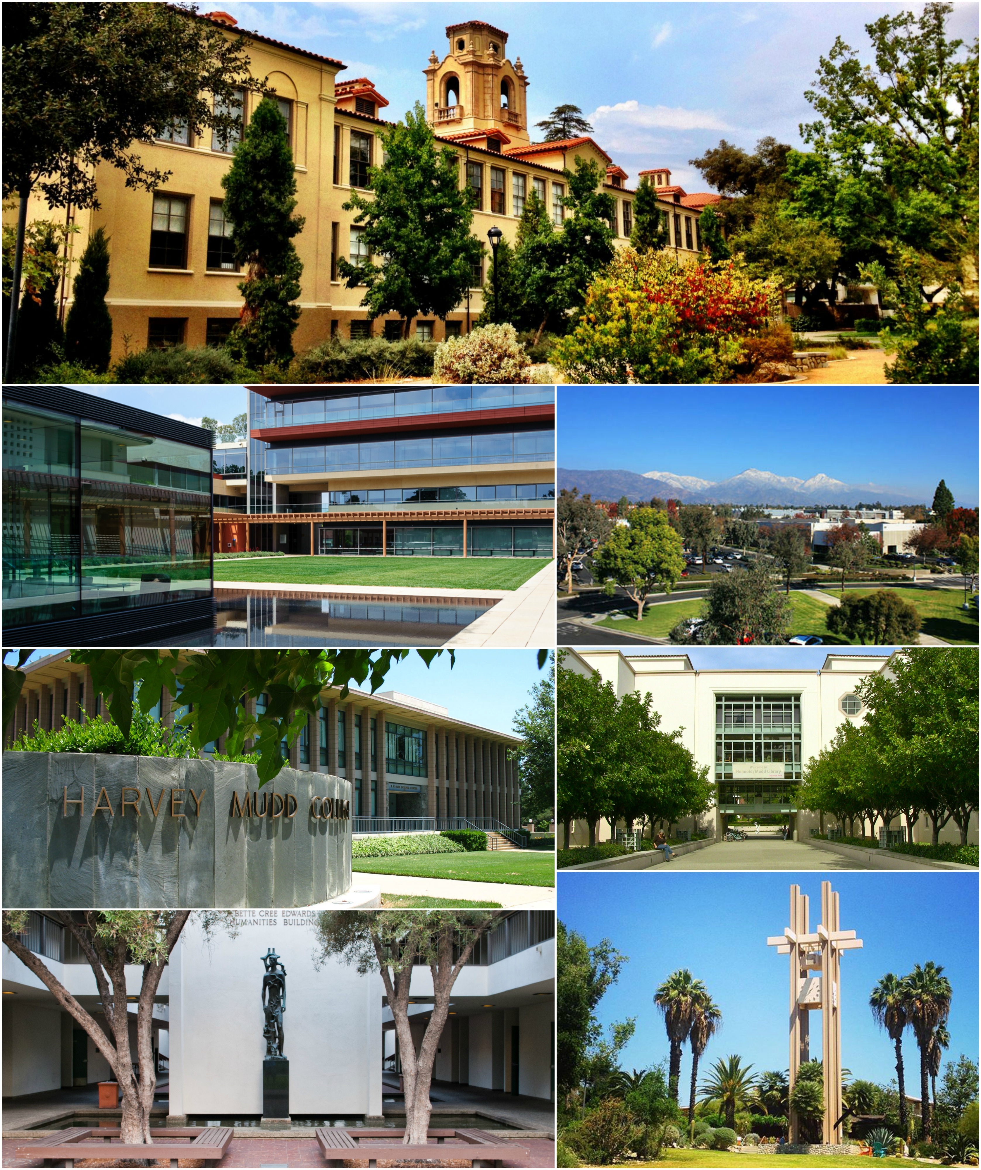 Clockwise from top: Pomona College, Claremont Graduate College, Keck Graduate Institute, Pitzer College, Scripps College, Harvey Mudd College, Claremont McKenna College. Photos clockwise from top